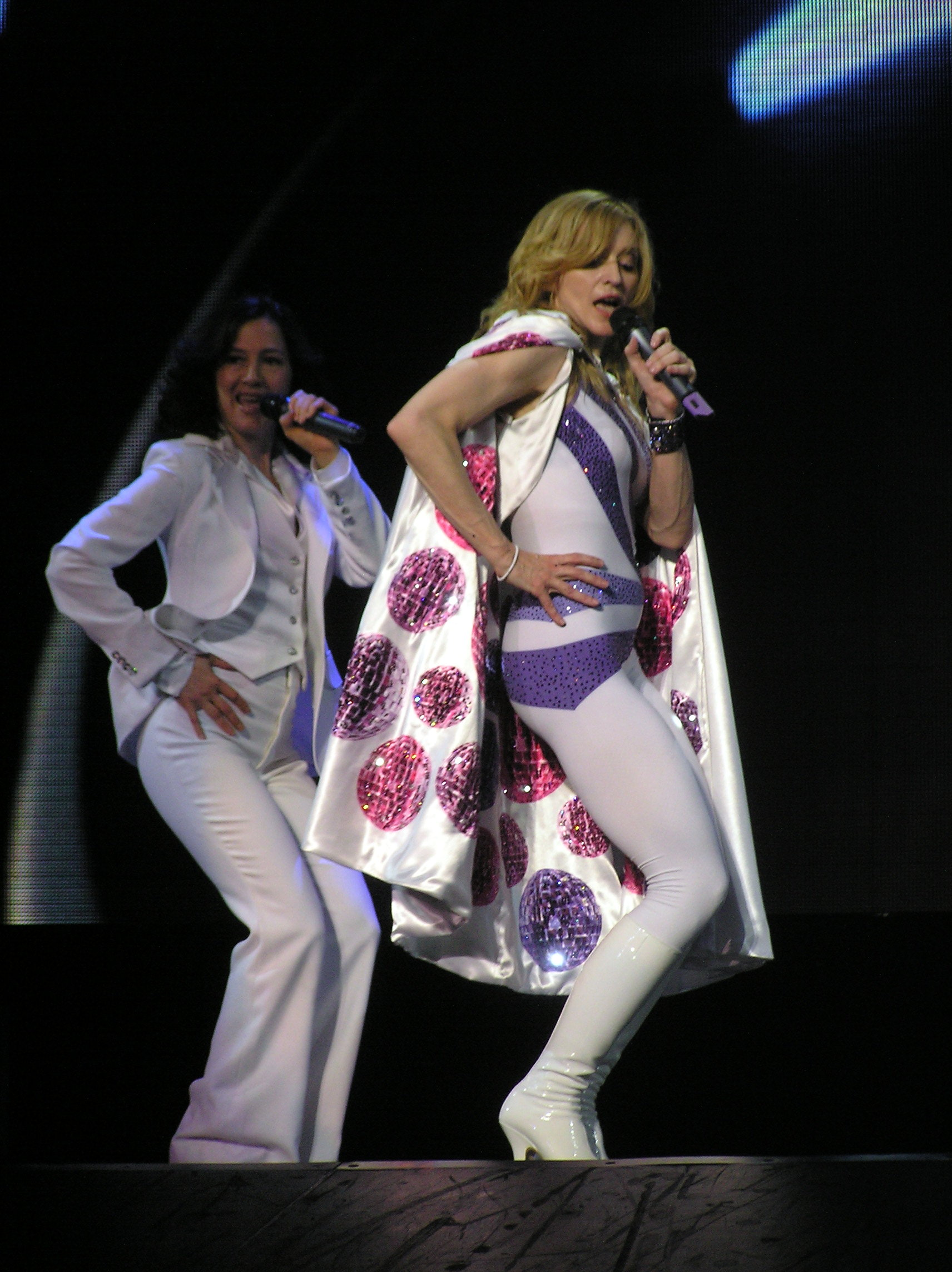 Performing "Lucky Star" on the confessions Tour